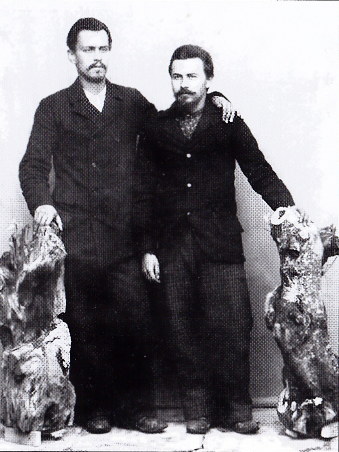 bulgarian revolutionaries